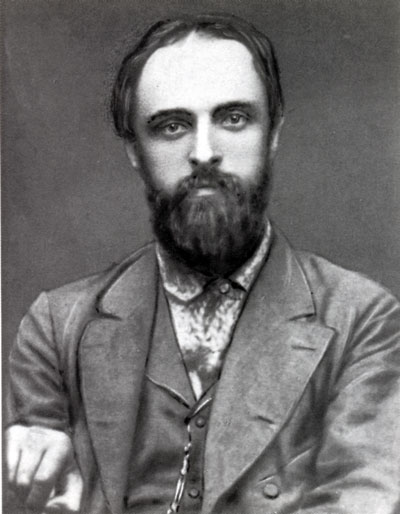 Alexander Potresov (1869—1934) was a Russian social democrat and one of the leaders of Menshevism.